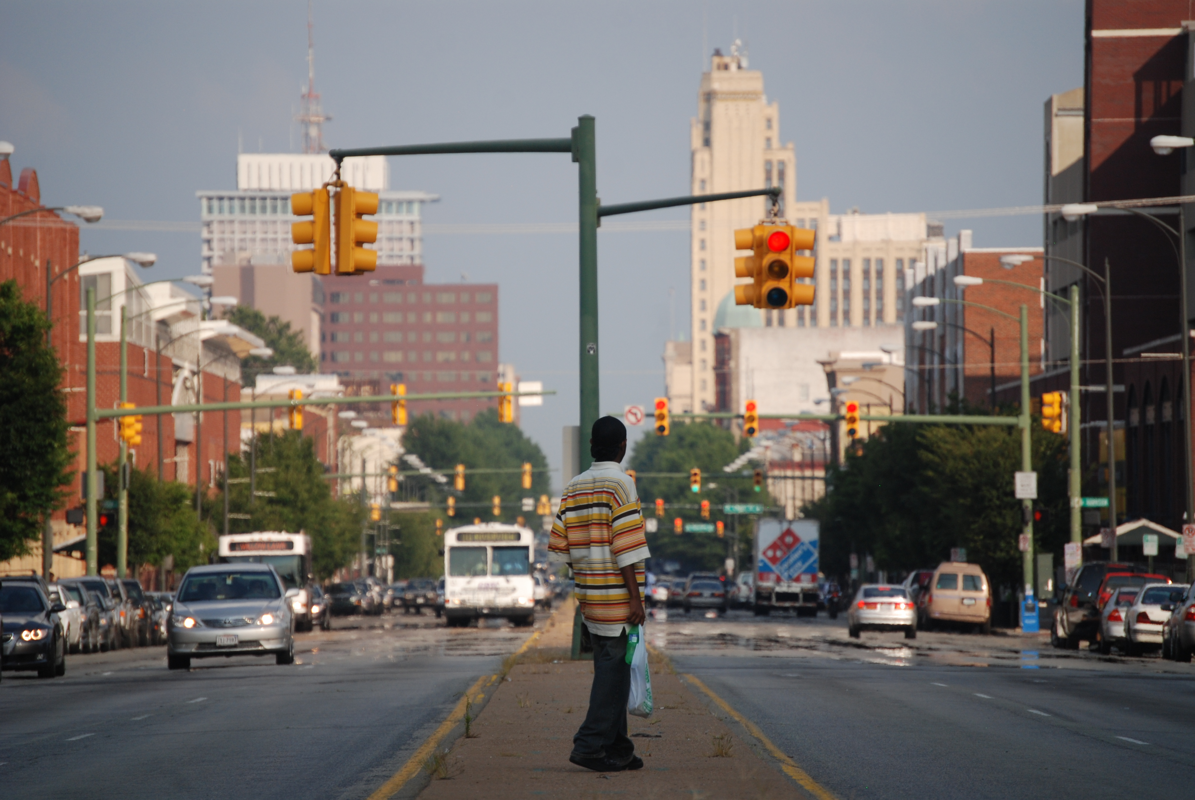 A view looking East on Broad Street at VCU. Photo by Jeff Auth